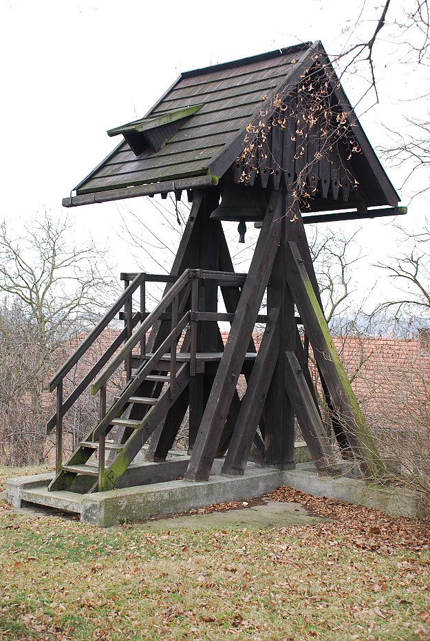 Wooden belfry in Vápno, Pardubice District, Czech Republic